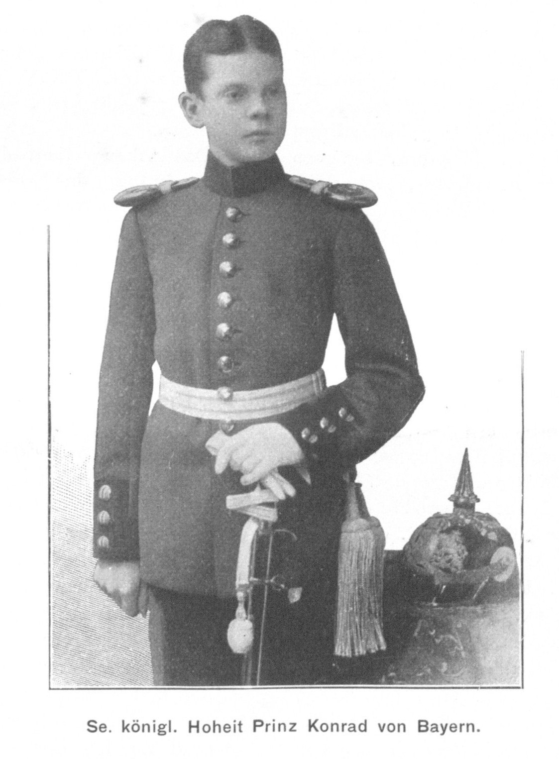 Portrait of Prince Konrad of Bavaria (1883-1969), member of Bavarian royal family.